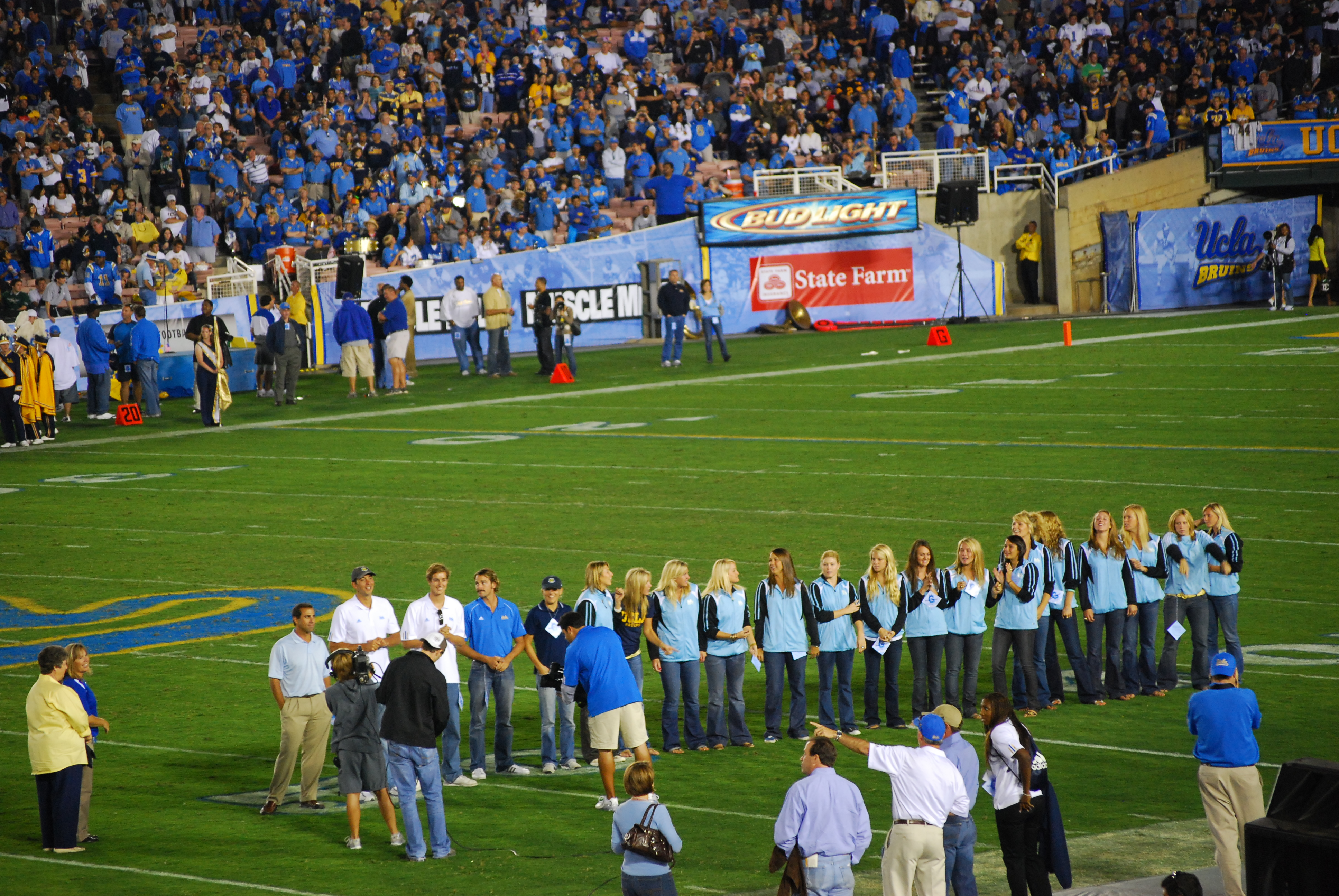 Women's 100th NCAA Championship Water Polo team honored at 2007 UCLA vs. Notre Dame football game at Rose Bowl